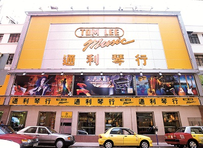 Tom Lee Music Main Showrooms 1-9 Cameron Lane, Tsimshatsui, Kowloon